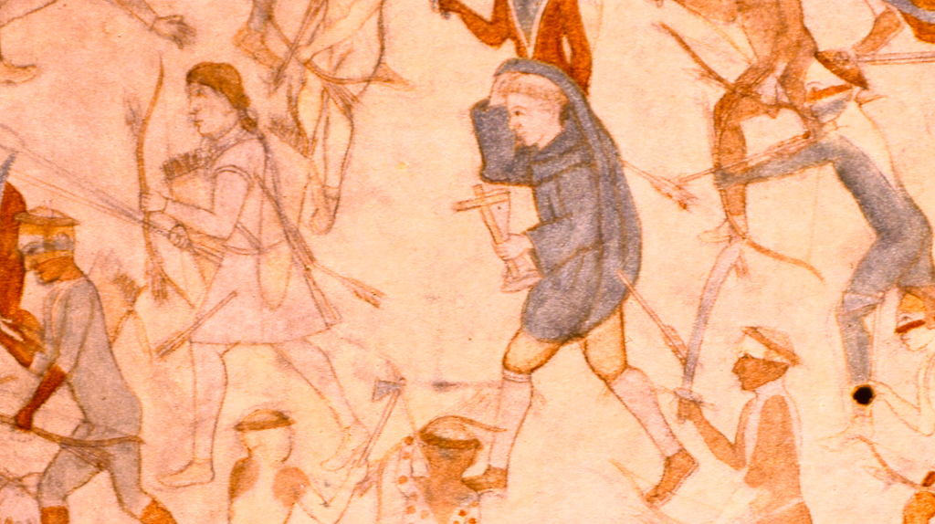 Detail of hide painting sent to Switzerland from Sonora, Mexico in 1758 by Philipp Segesser (1 September 1689 - 28 September 1762). Assumed to represent the 1720 defeat of the Villasur expedition. Supposedly shown in the image is José López Naranjo and Fray Juan Minguez.